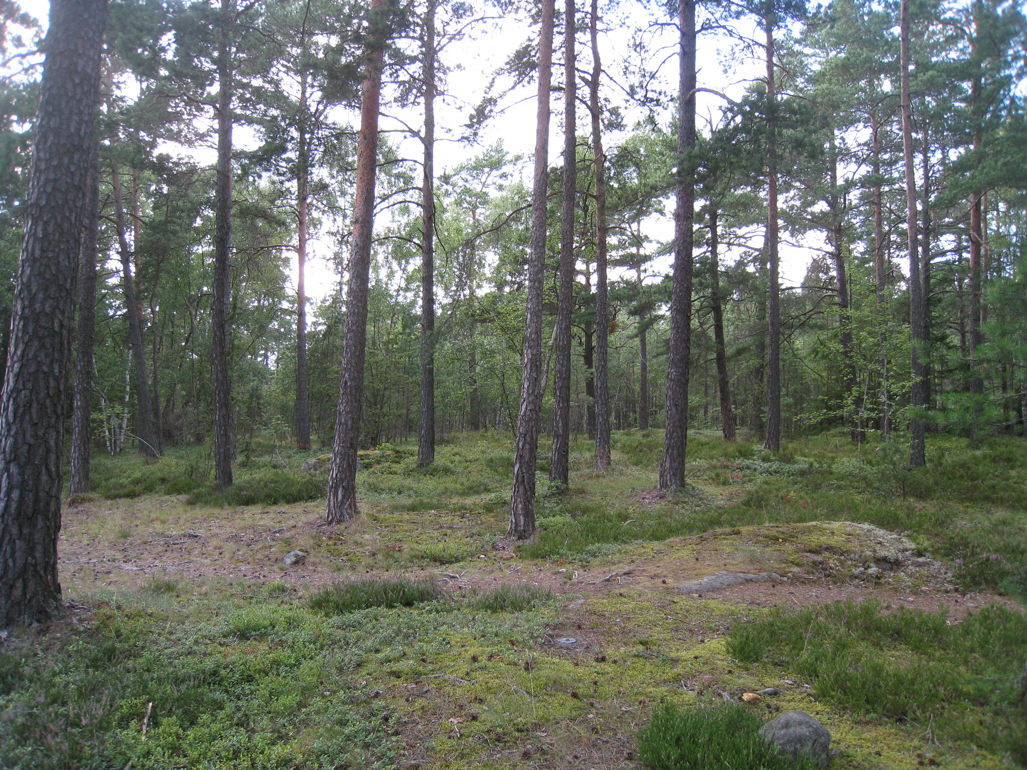 Cobblestones in Hummelmoraberget, Viksjö, Järfälla Municipality, Stockholm County.